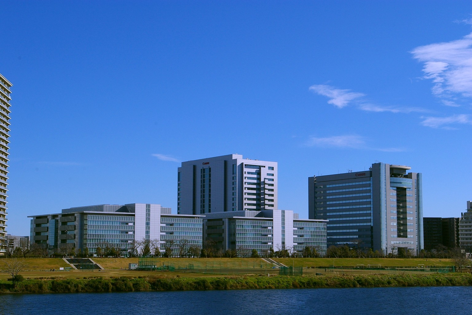 Canon corporate headquarters as seen from Kawasaki side in December 2008